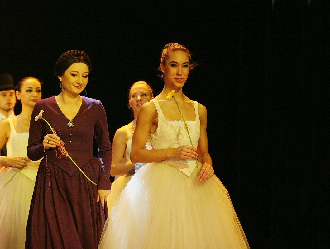 Anna Sztejner as Madame Giry and Ida Nowakowska as Meg Giry in "The Phantom of the Opera" musical, Roma Musical Theatre in Warsaw, 11 Oct 2008.